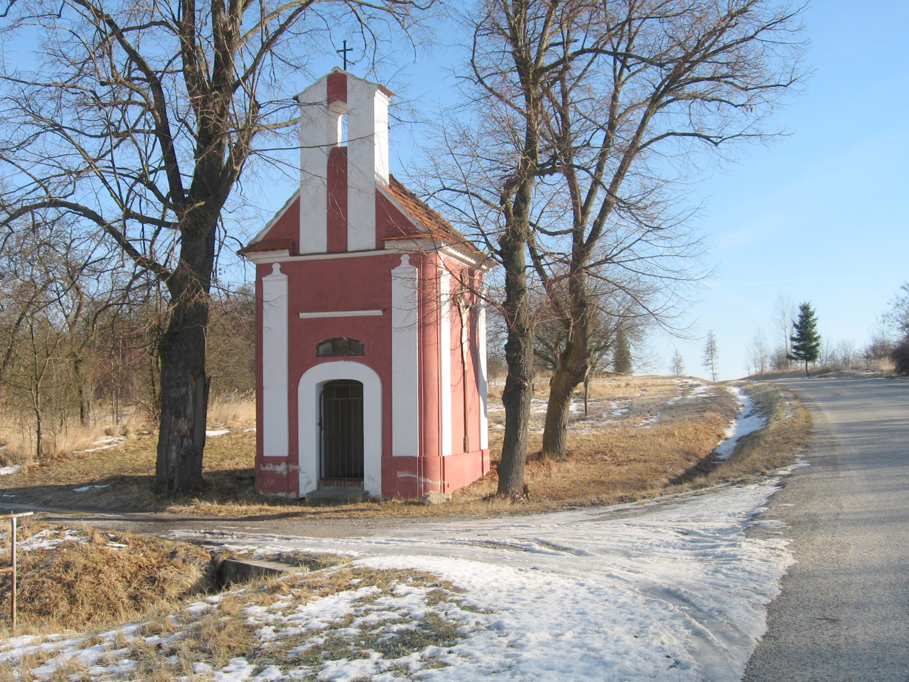 Zaniklé Podhájí